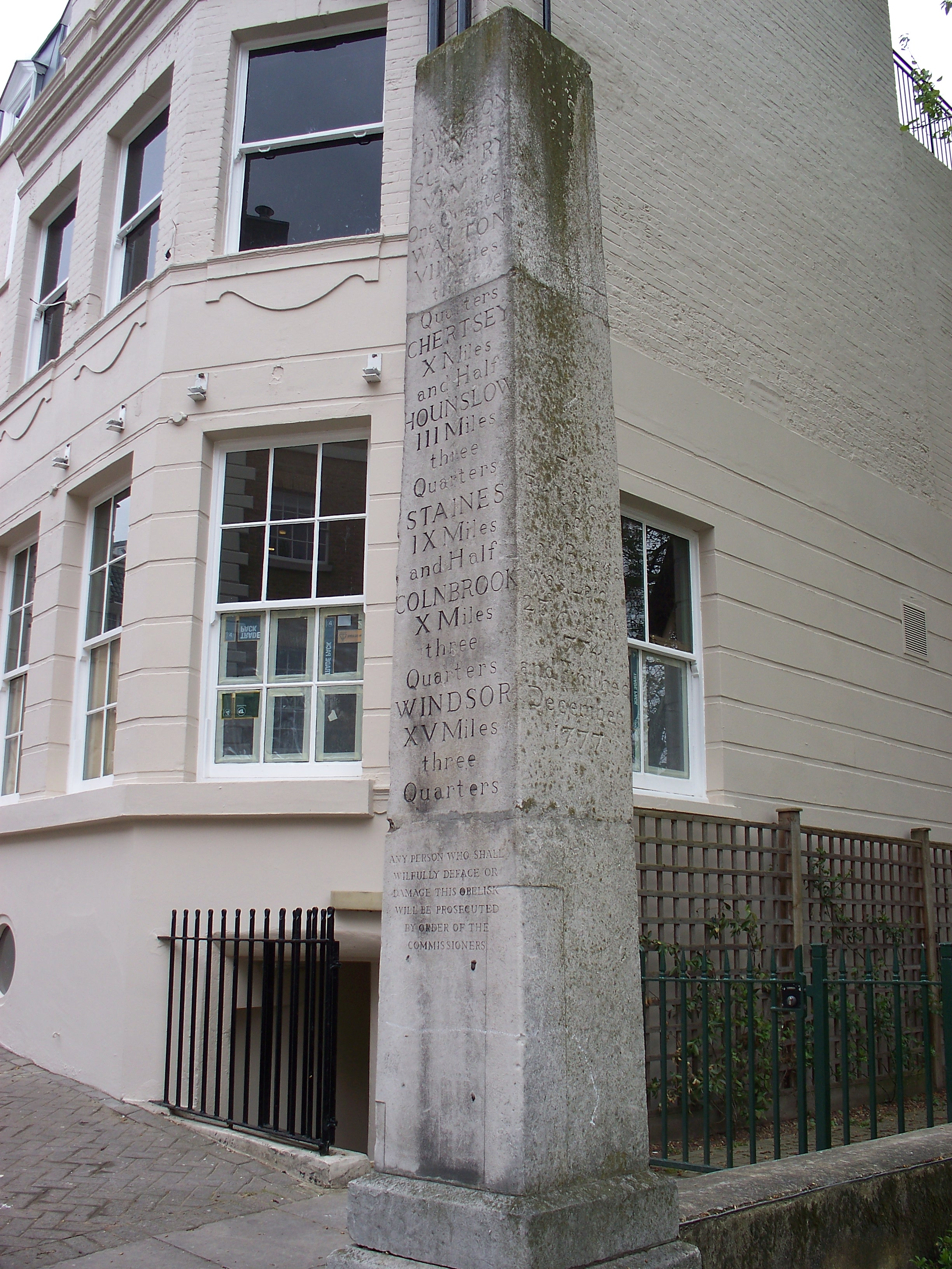 18th century milepost, Richmond Bridge, Richmond, London. Photograph taken in a public location in the UK of a building on permanent public display, and exempt from copyright under Section 62 of the Copyright Designs & Patents Act 1988 ("it is not an infringement of copyright to film, photograph, broadcast or make a graphic image of a building, sculpture, models for buildings or work of artistic craftsmanship if that work is permanently situated in a public place or in premises open to the public")